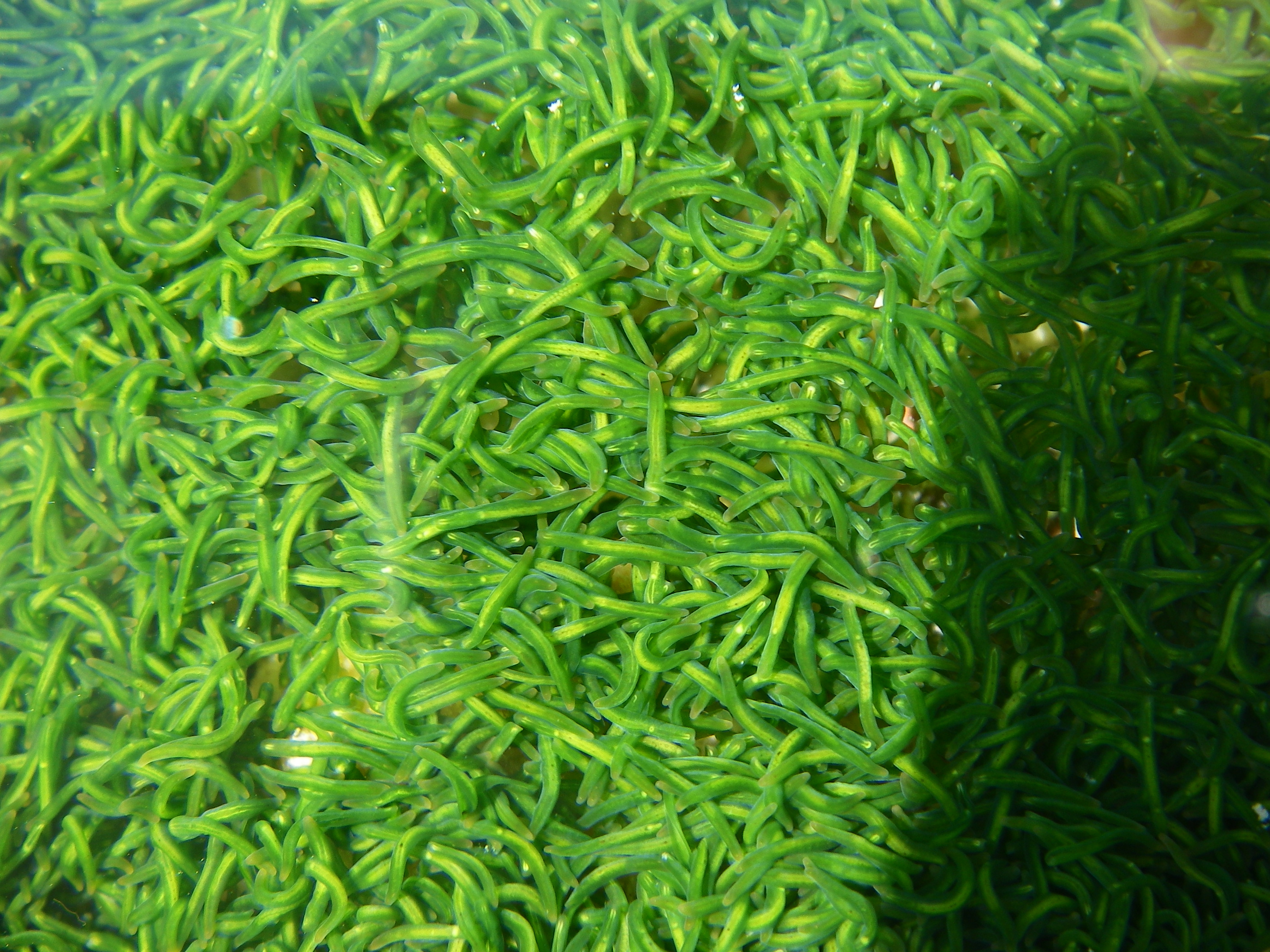 Symsagittifera roscoffensis (an acoelomorph flatworm, commonly know as the "mint sauce worm"), in Jersey.